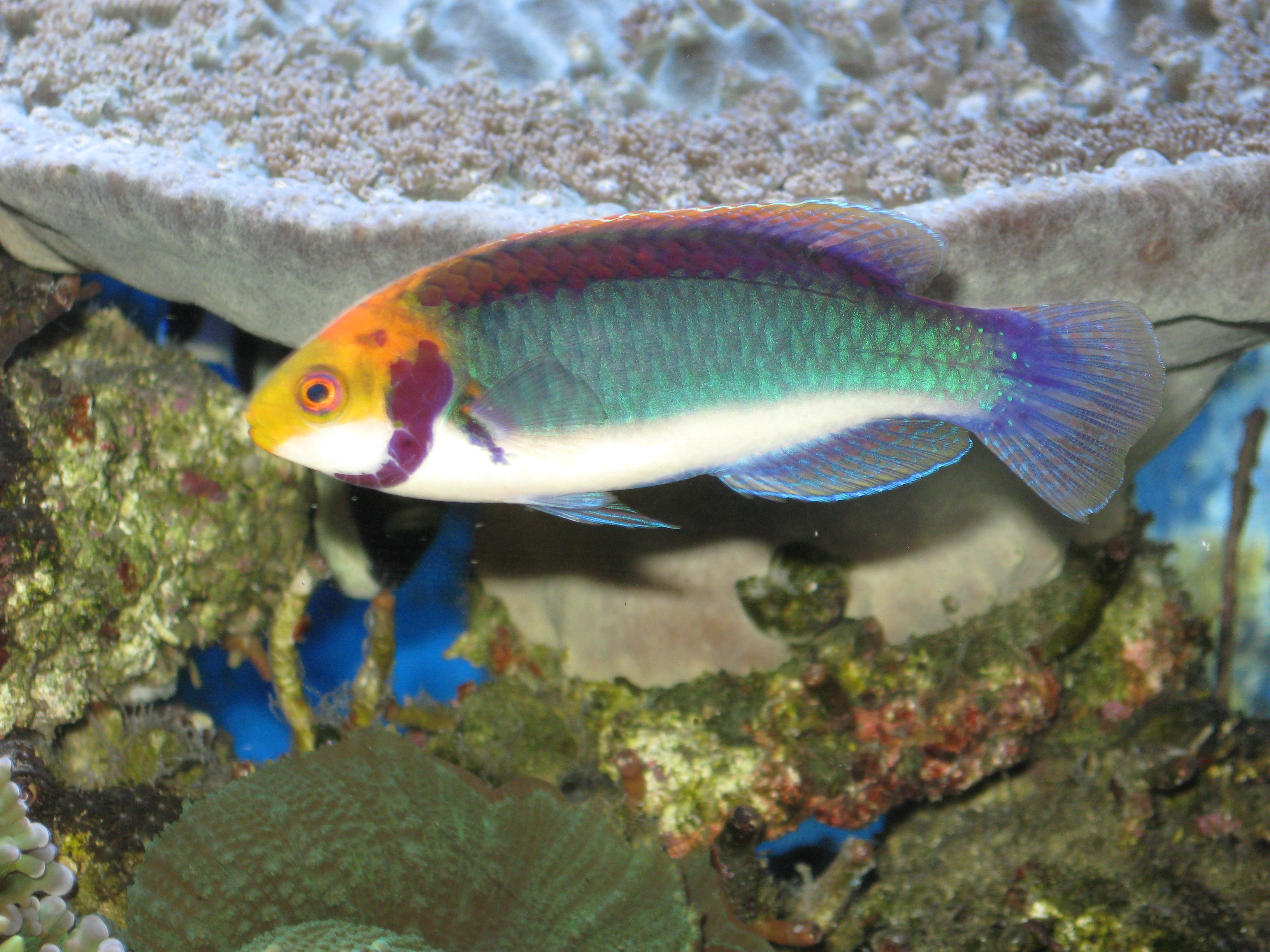 Photo of a red head wrasse (Cirrhilabrus solorensis) in an aquarium.